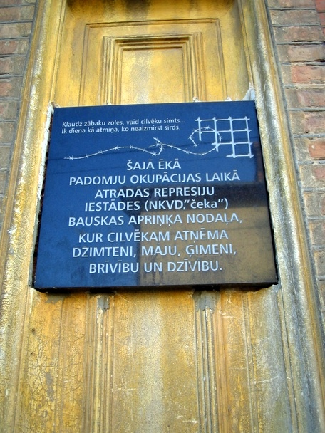 The plaque on the former headquarters of the NKVD ("Cheka") in Bauska, Latvia, digital photograph by Pēteris Cedriņš, 2006. The text reads: "During the Soviet occupation, the Bauska District branch of the institution of repression (NKVD, 'Cheka') was located in this building, where the human being was deprived of his homeland, home, family, freedom, and life. The stomping boots resound and hundreds wail... each day is like a memory not forgotten by the heart."